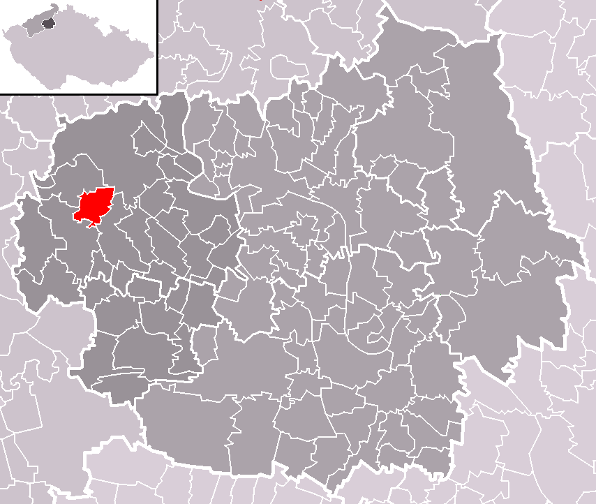 Location of Vlastislav municipality within Litoměřice District and administrative area of Lovosice as a Municipality with Extended Competence.